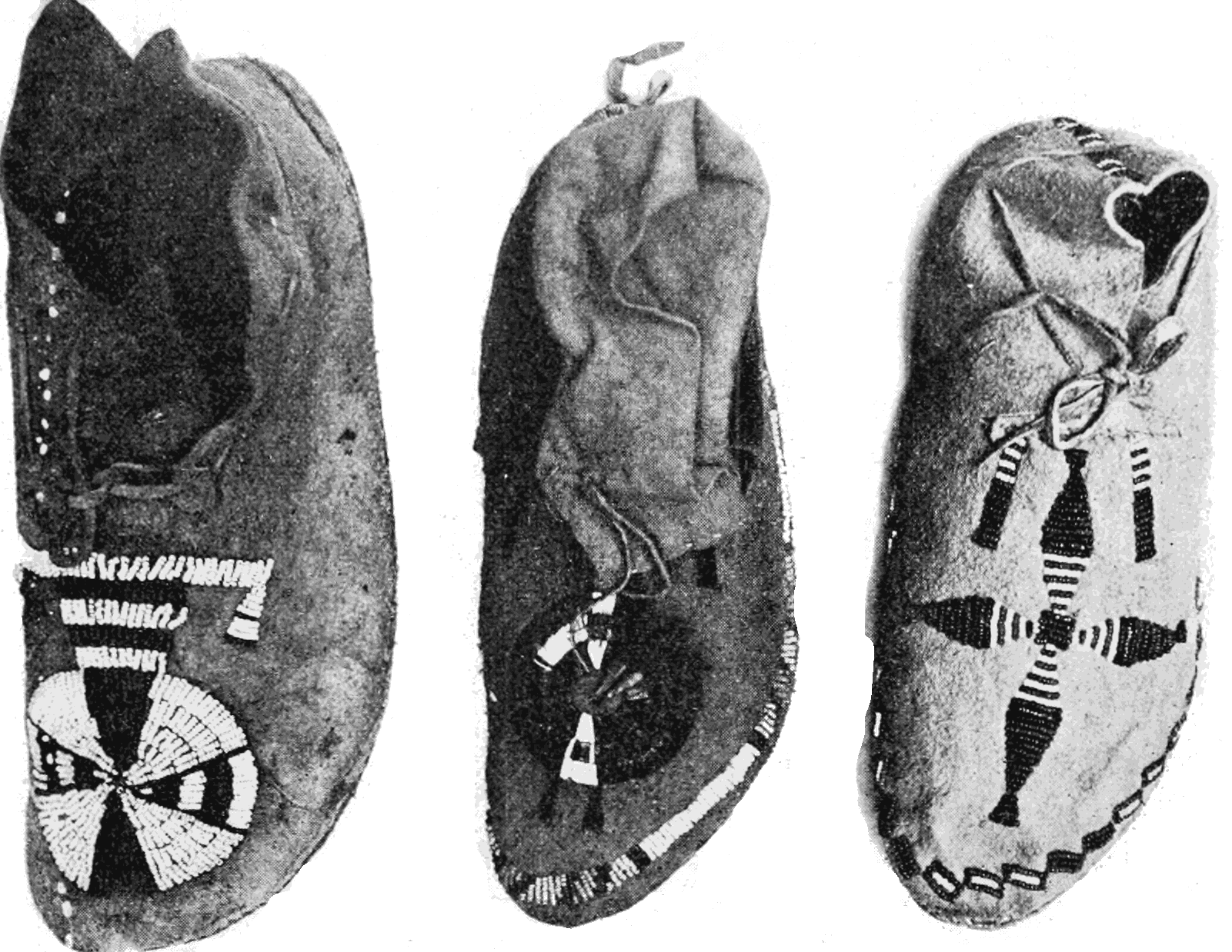 Shoshone Sioux and Arapaho moccasins